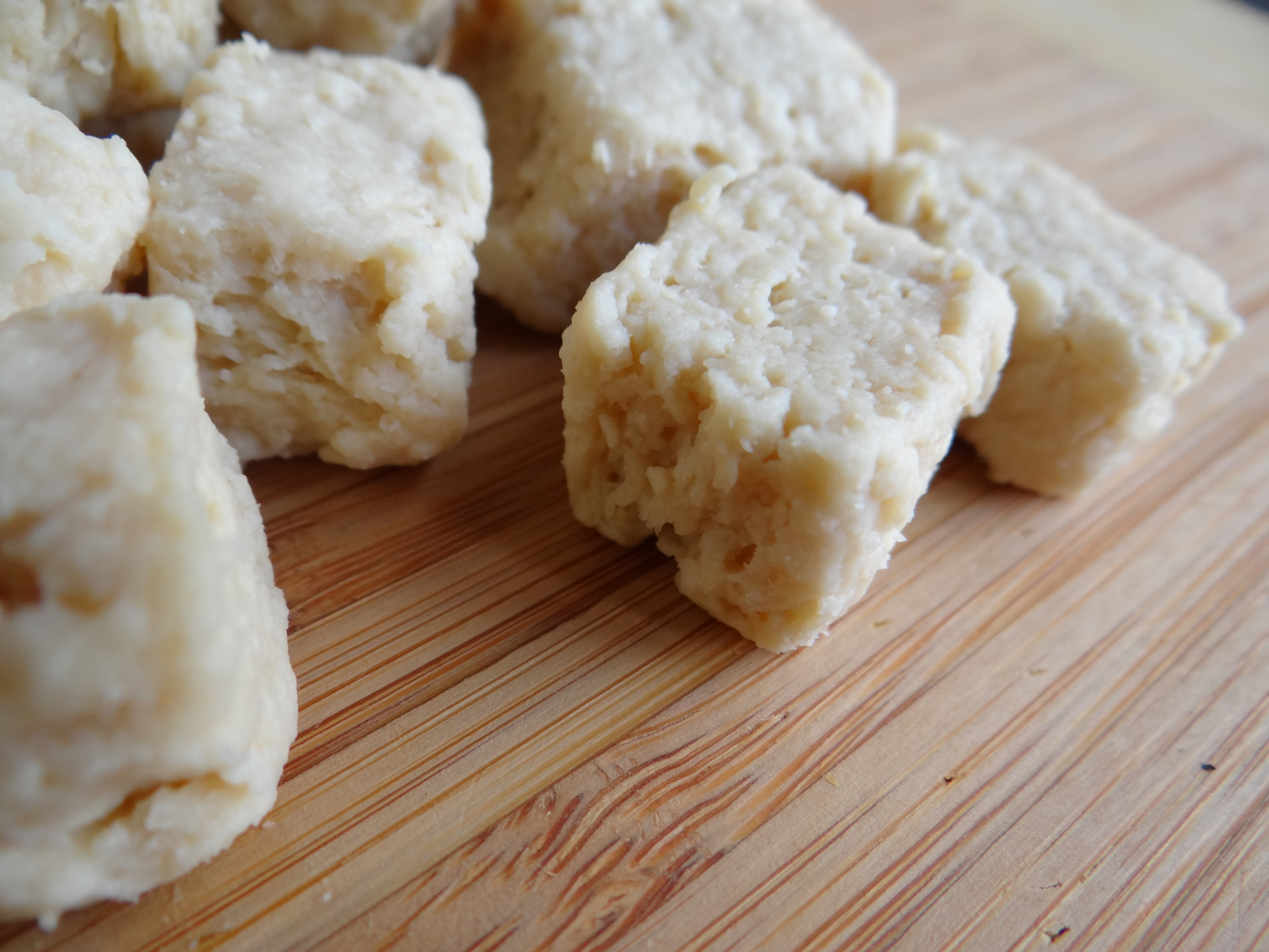 Quorn pieces before cooking.